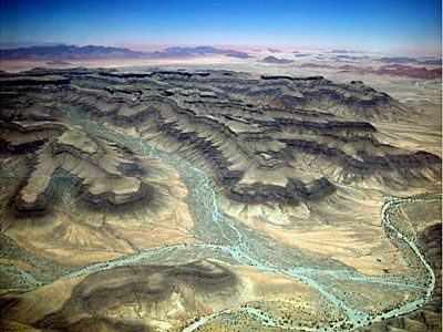 Yarlung Zangbo Grand Canyon